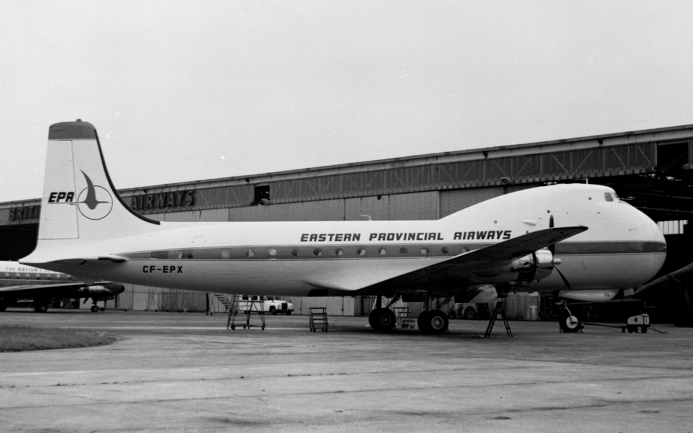 Originally converted from C-54A G-ARZV and delivered to Aer Lingus as EI-AMP, this Carvair was eventually sold to Eastern Provincial in 1968 and returned to ATL at Southend for refurbishment including installation of cold weather equipment. It was first allocated CF-EPU but became CF-EPX and I photographed it outside the ATL hangar on 29 Jun 1968. It left on delivery on 5 Jul and had a very short life with EPA, being destroyed in an approach crash at Twin Falls, Labrador, on 28 Sep 1968. Photo: Richard John Goring (Transportraits)